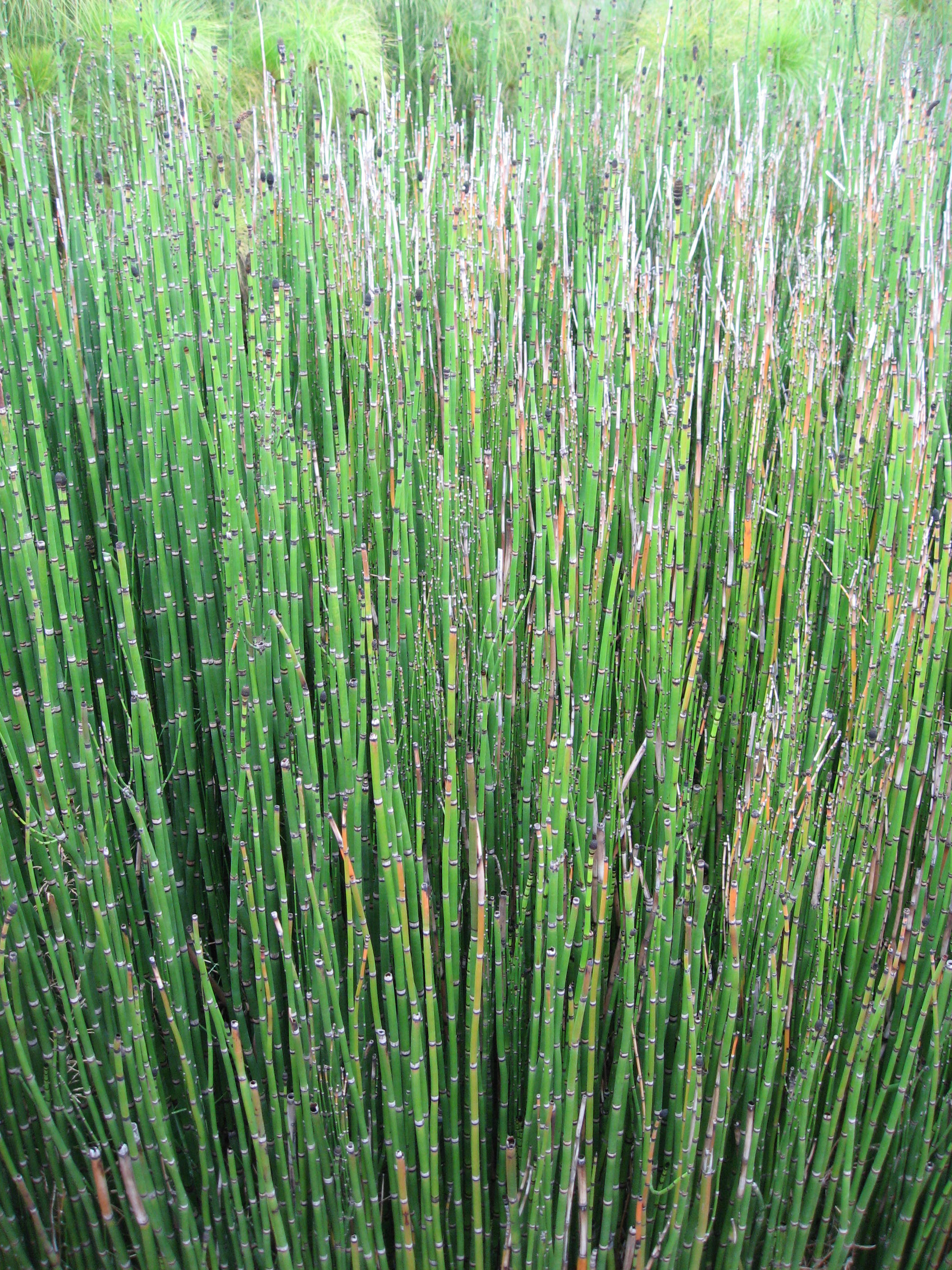 Equisetum hyemale, syn. "Equisetum camtschatcense" nom. nud., in Parc floral de Paris Map: 48° 50' 19" N 2° 26' 33" E Warning: taggued Equisetum camtschatcense by the parc's botanists